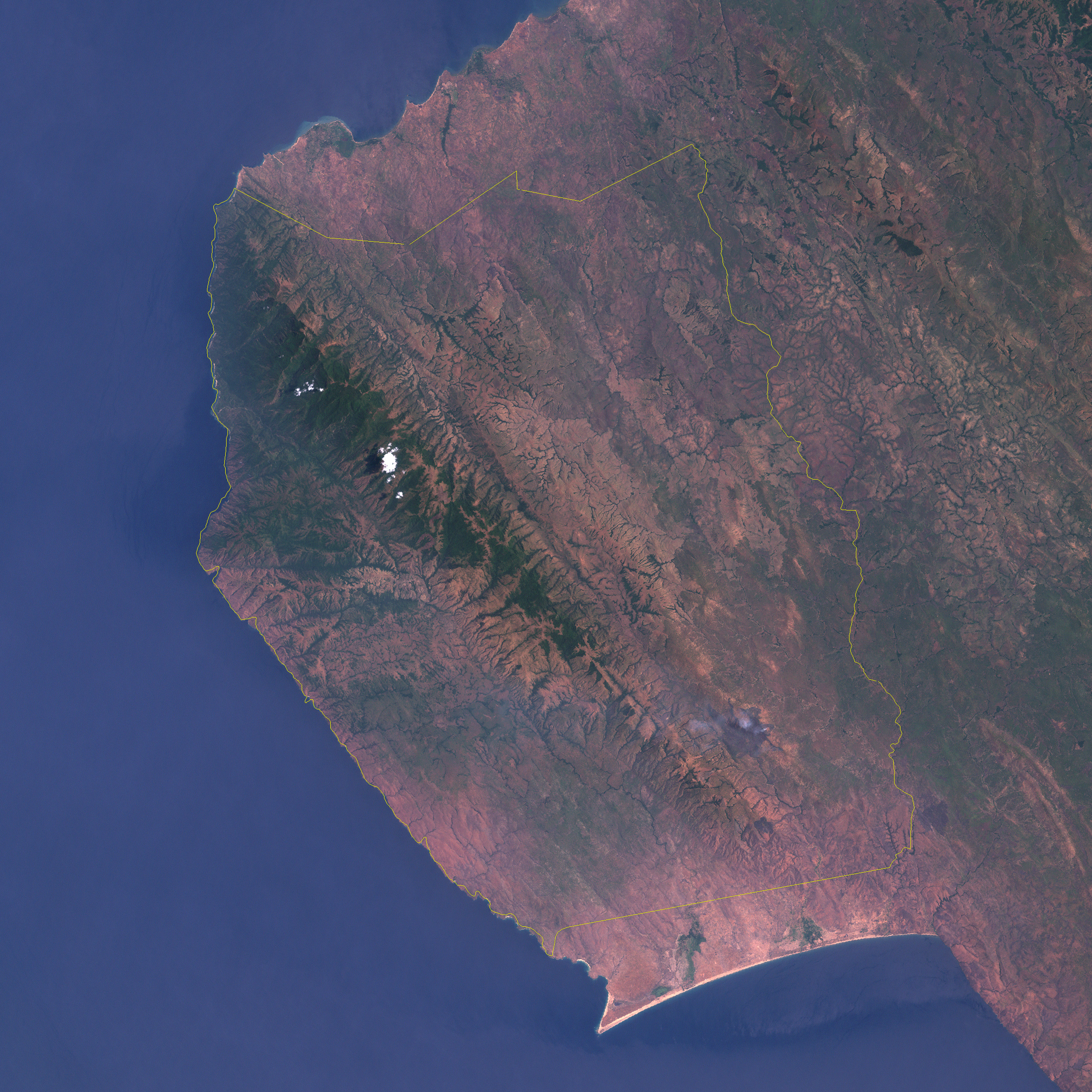 Satellite image of Mahale Mountains National Park along Lake Tanganyika, Tanzania. The park borders are outlined in yellow.